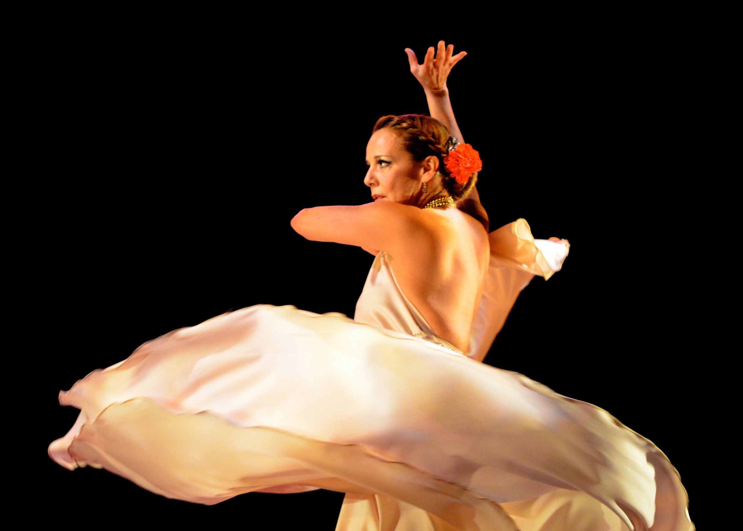 Production of El Pintor